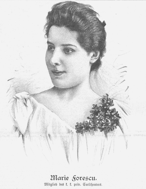 Portrait of Maria Forescu (1875-1943), Austrian actress from Bukovina